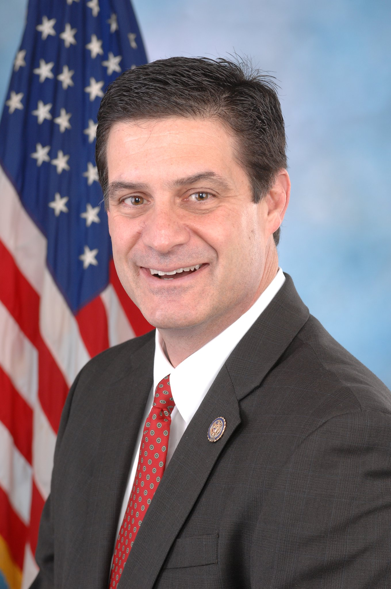 Chip Cravaack, Official Portrait, 112th Congress